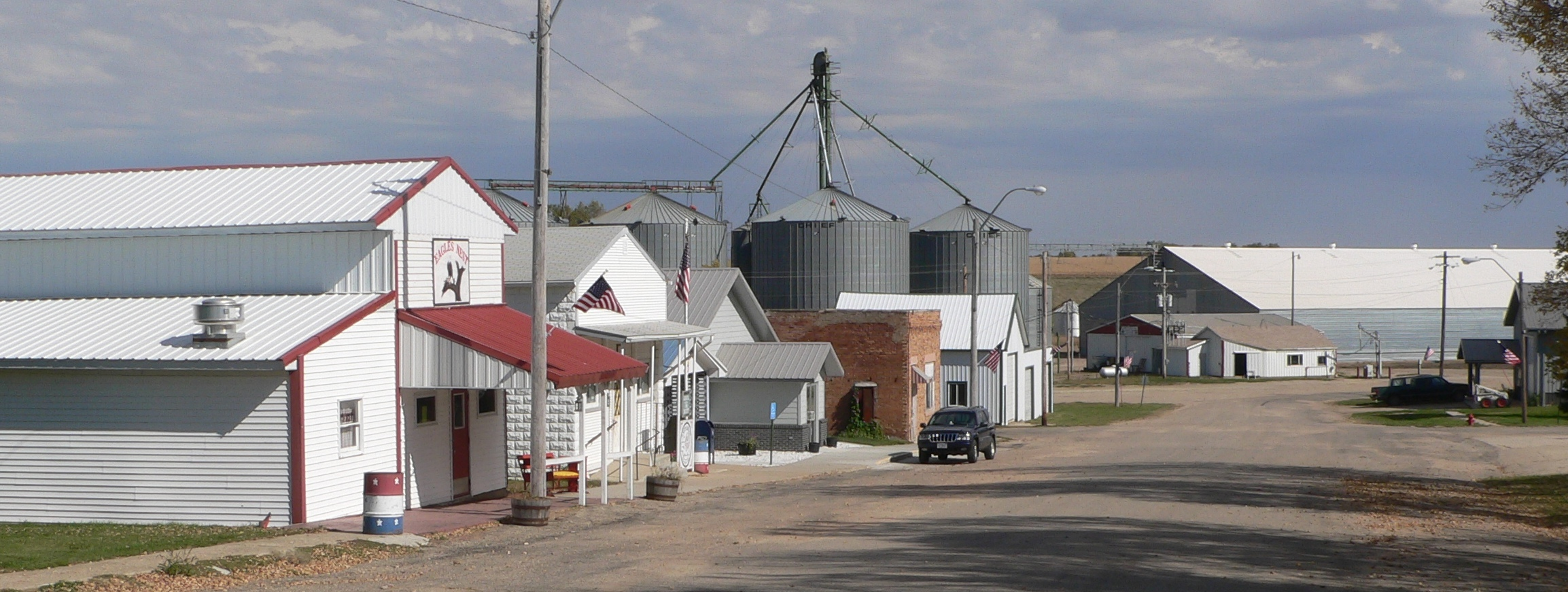 Downtown Magnet, Nebraska: Main Street, looking east from about Park Street.